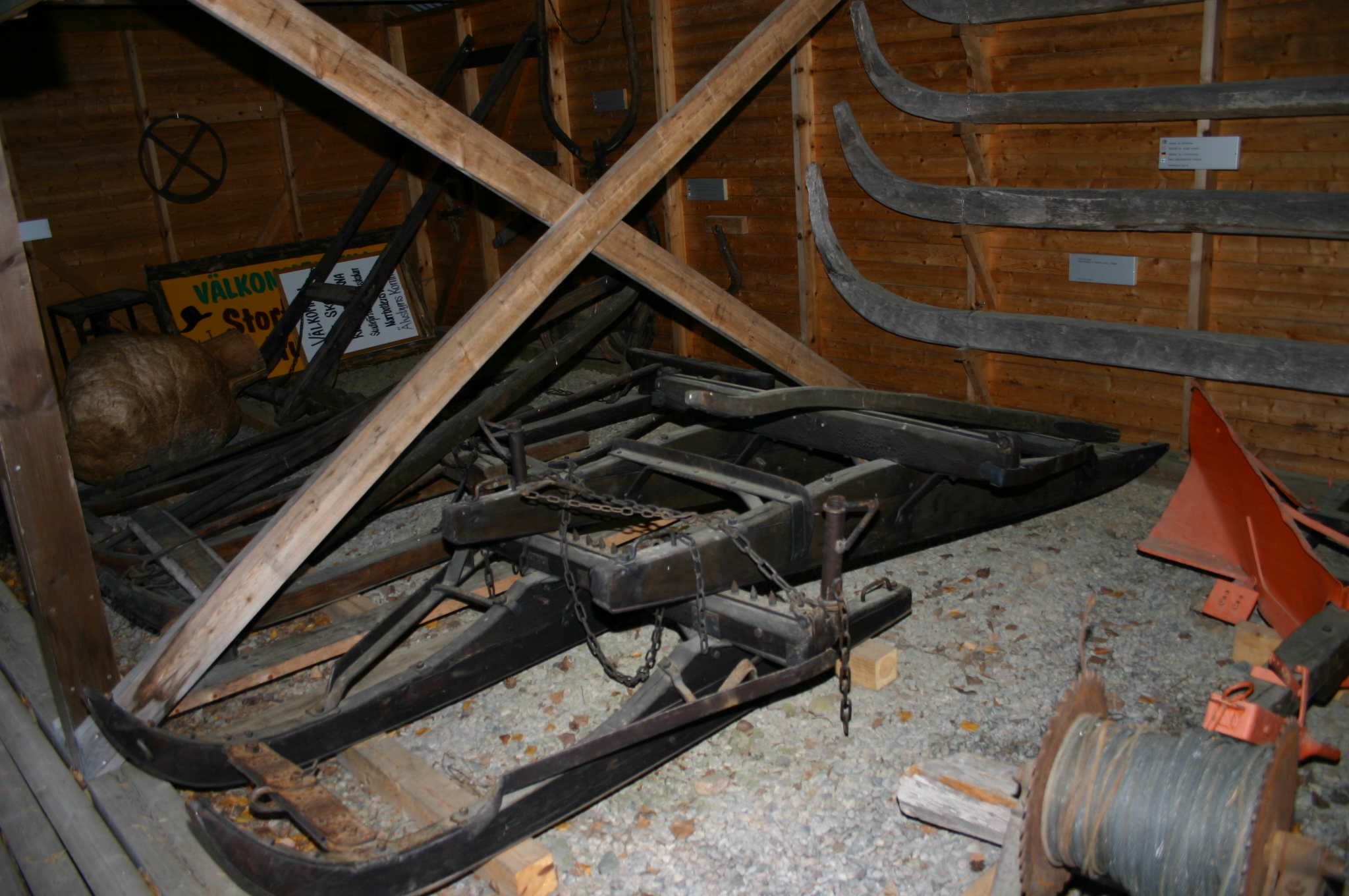 Description: A sturdy sleigh made for driving heavy timber (Storforsen,Sweden) source: created on 17.10.2005 by Stephan Herz with Canon EOS 300D